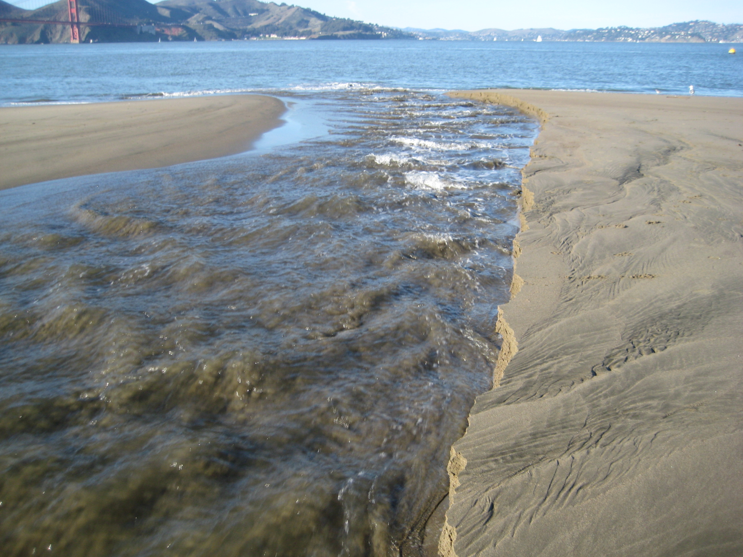 The same stream in the Water Flash pictures